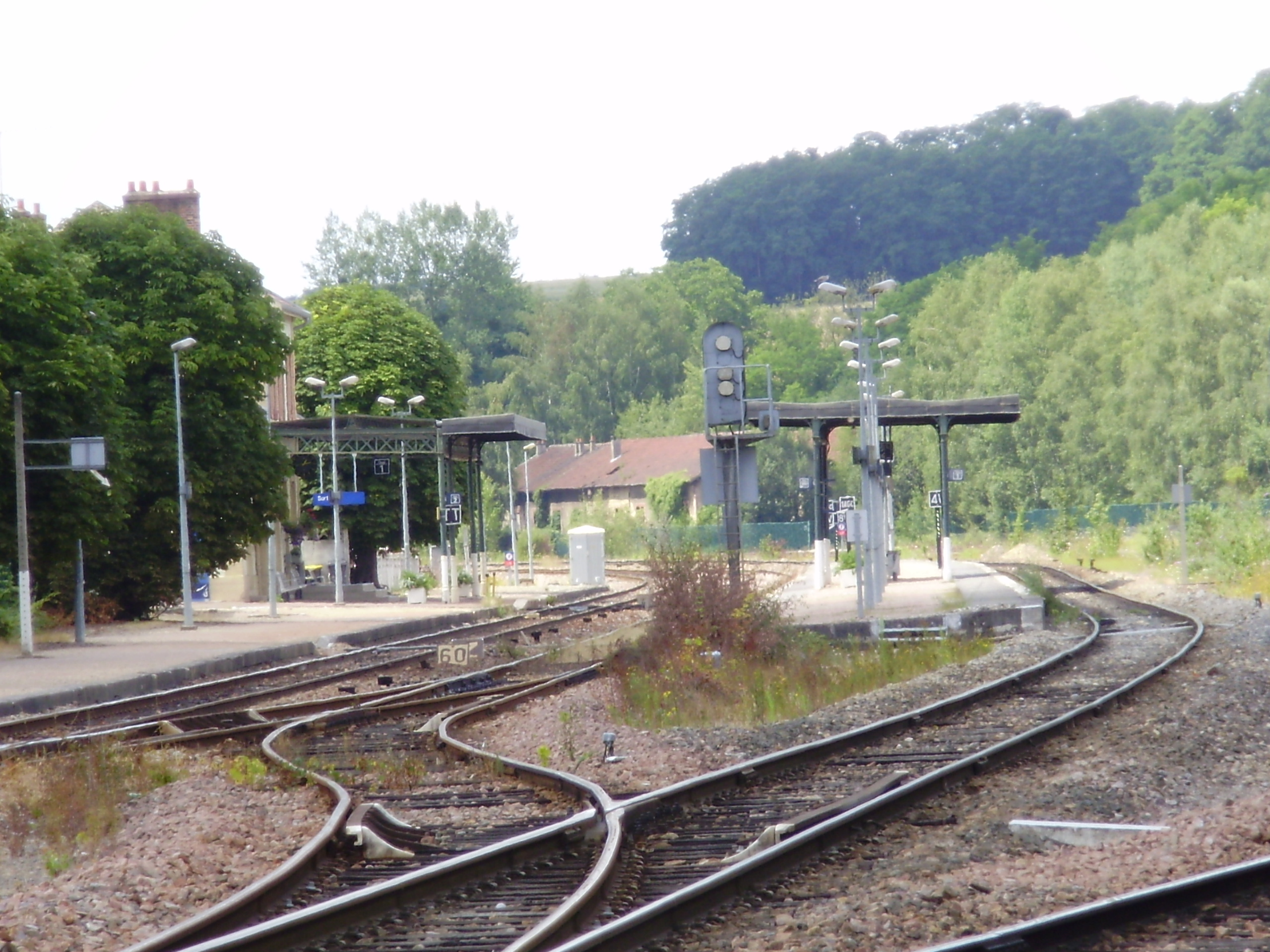 La Ferté-Milon station, Aisne, France (view from the level crossing in the east of the station)